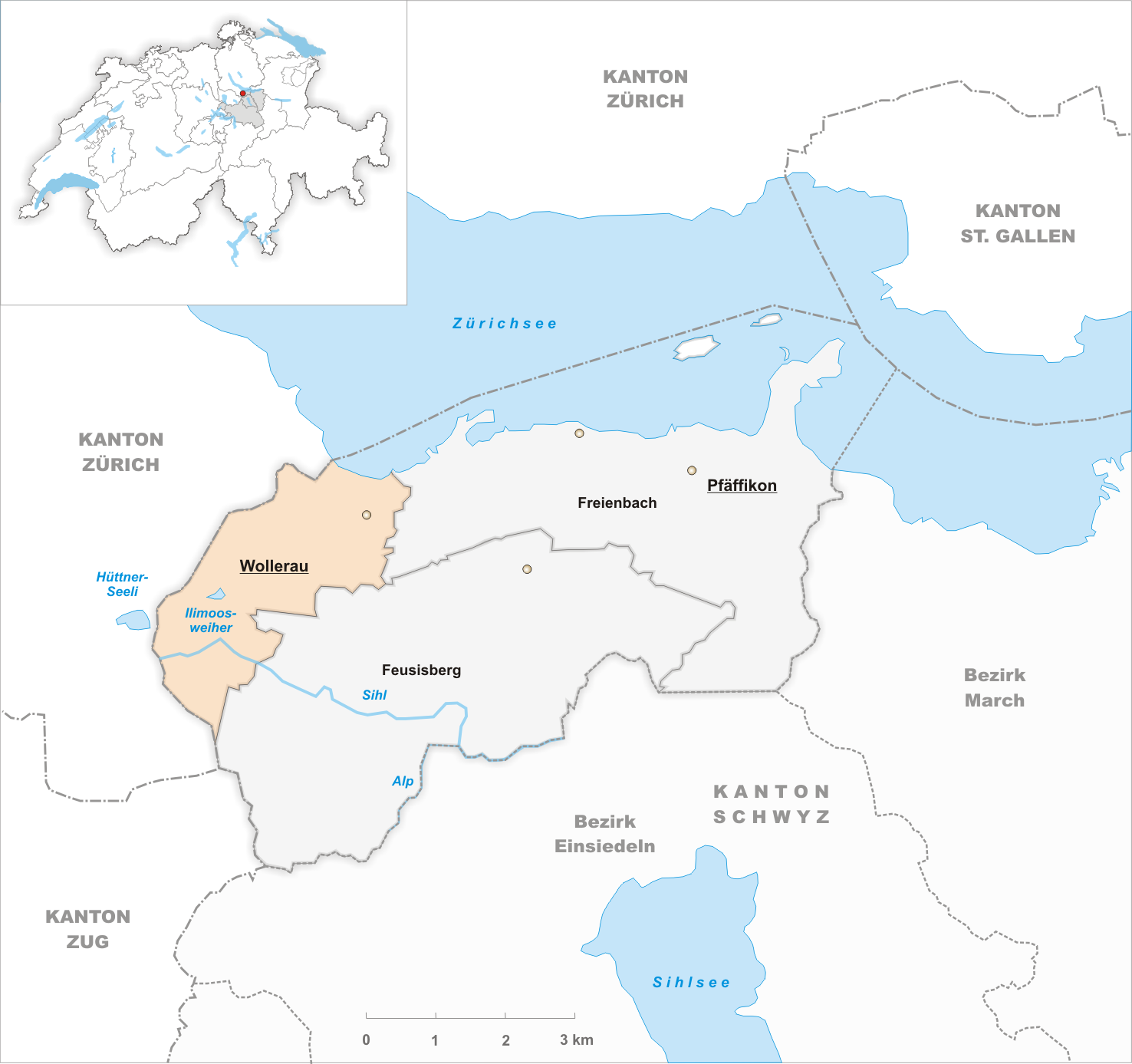 Municipality Wollerau